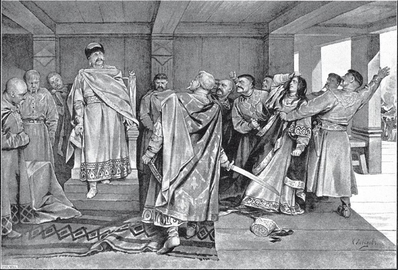 Boyars of Halych hale the witch and lover of Yaroslav Osmomysl to a stake